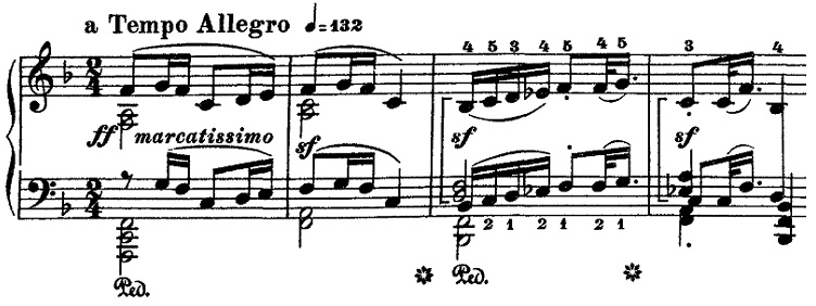 2/4 section of the Scherzo from Ludwig van Beethoven's Symphony No. 6 in F major (Pastoral), transcribed by Franz Liszt